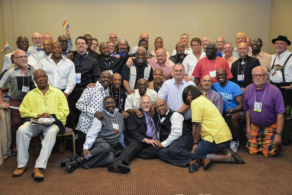 NABWMT 2014 Convention, Milwaukee